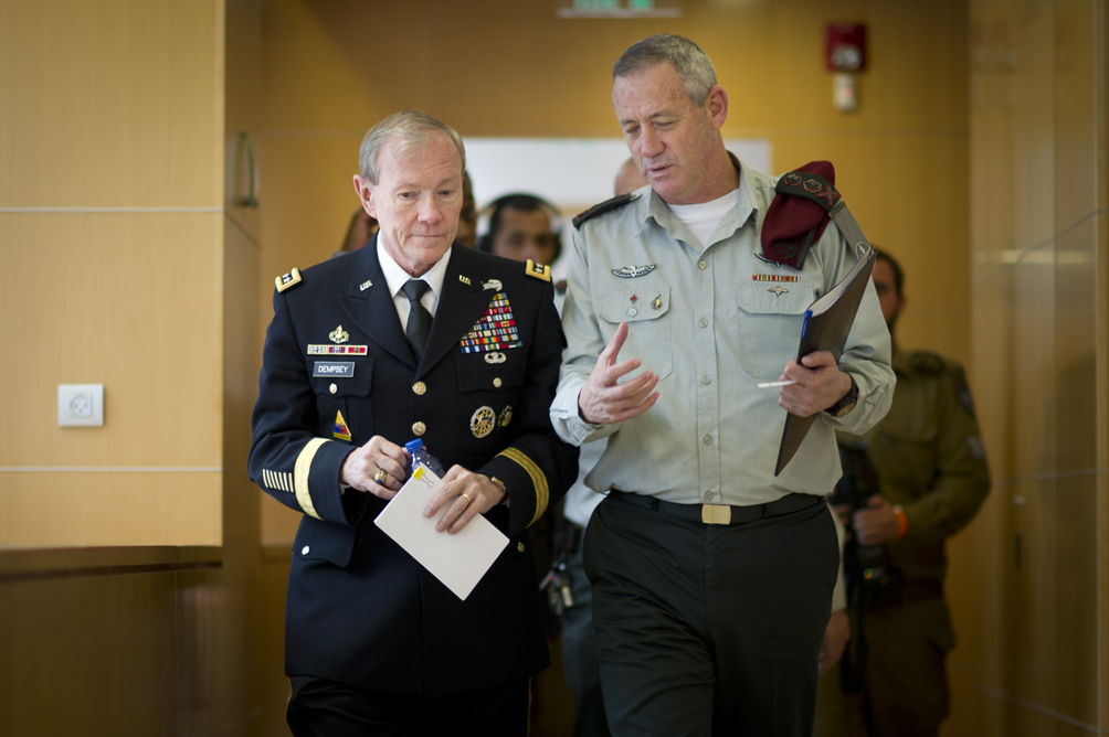 Chairman of the Joint Chiefs of Staff Army Gen. Martin E. Dempsey meets with Lt. Gen. Benny Gantz, Chief of General Staff of the Israeli Defense Forces in Israel. DOD photo by D. Myles Cullen.